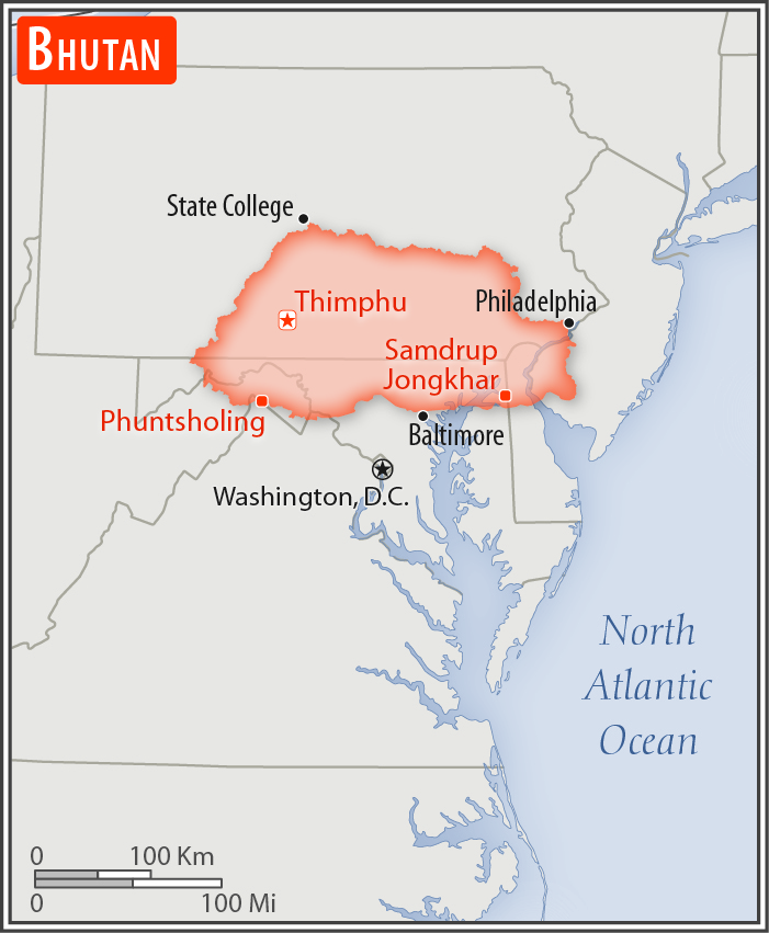 Comparison of the areas of two country. The area of Bhutan with biggest cities (red) overlay the area of the United States of America (gray background).